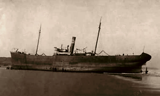 The William Cory & Son collier SS Nellie Wise aground at North Sands, Hartlepool in January 1908.